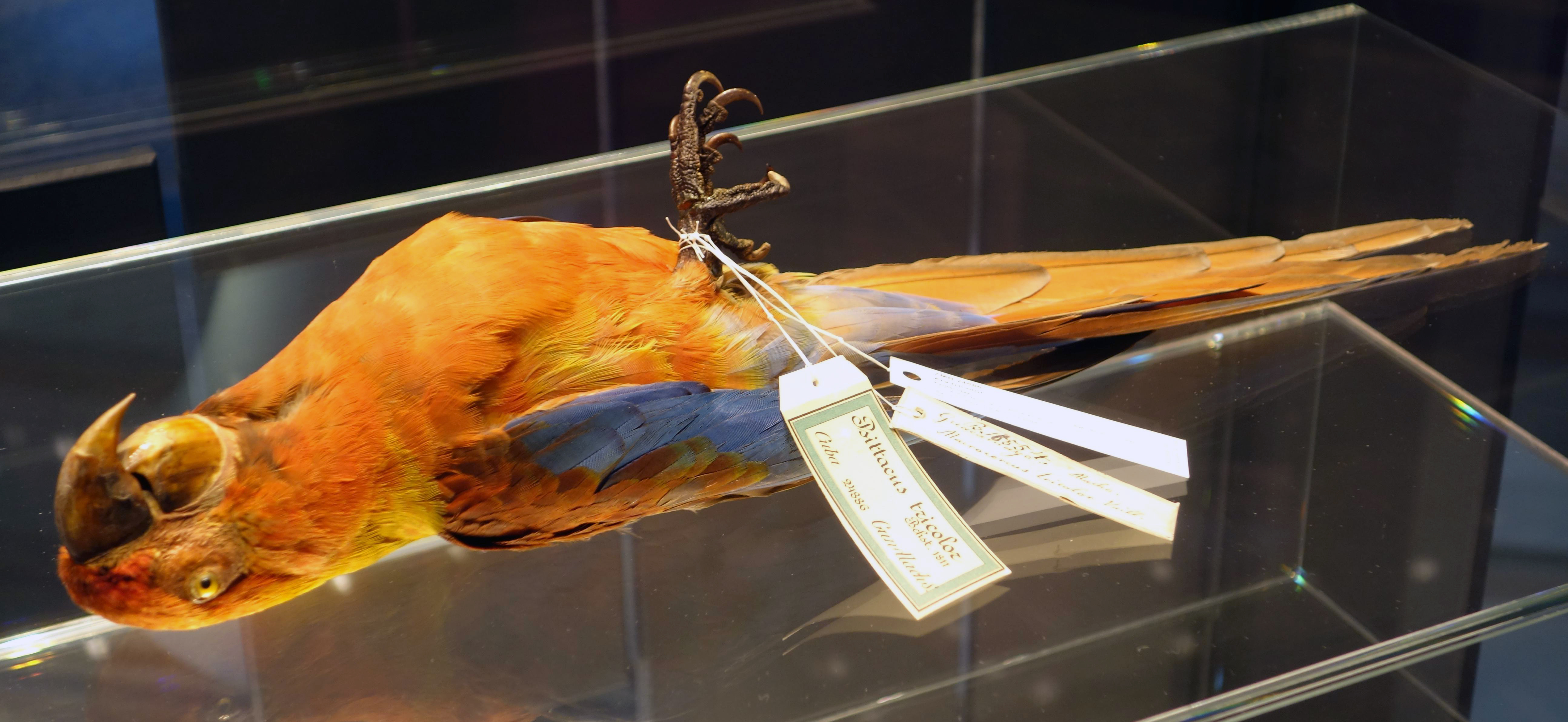 Ara tricolor specimen on display at the Museum für Naturkunde, Berlin.